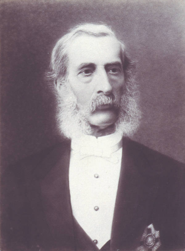 Photograph by J.W. Beattie published in his book entitled "The Governors of Tasmania: from 1804 to 1896", Hobart, 1896.